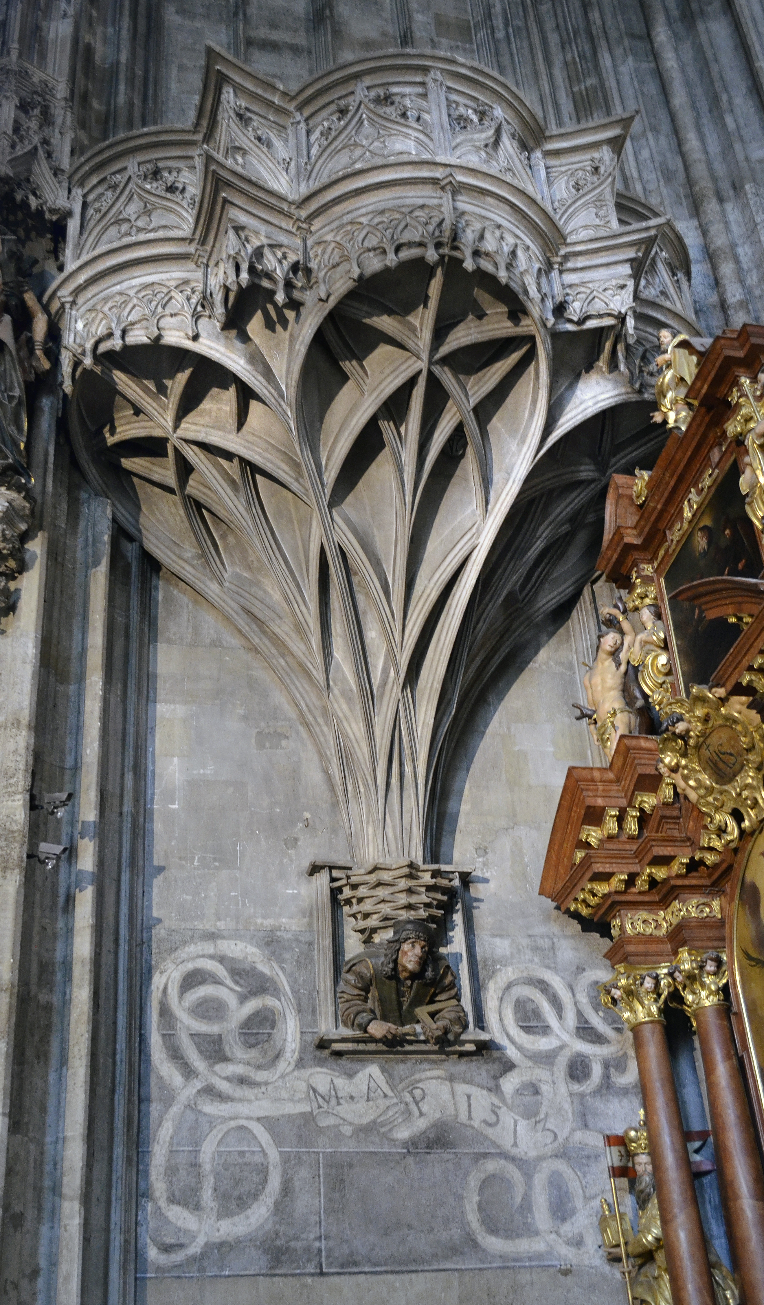 Orgelfuss-totale-stephansdom